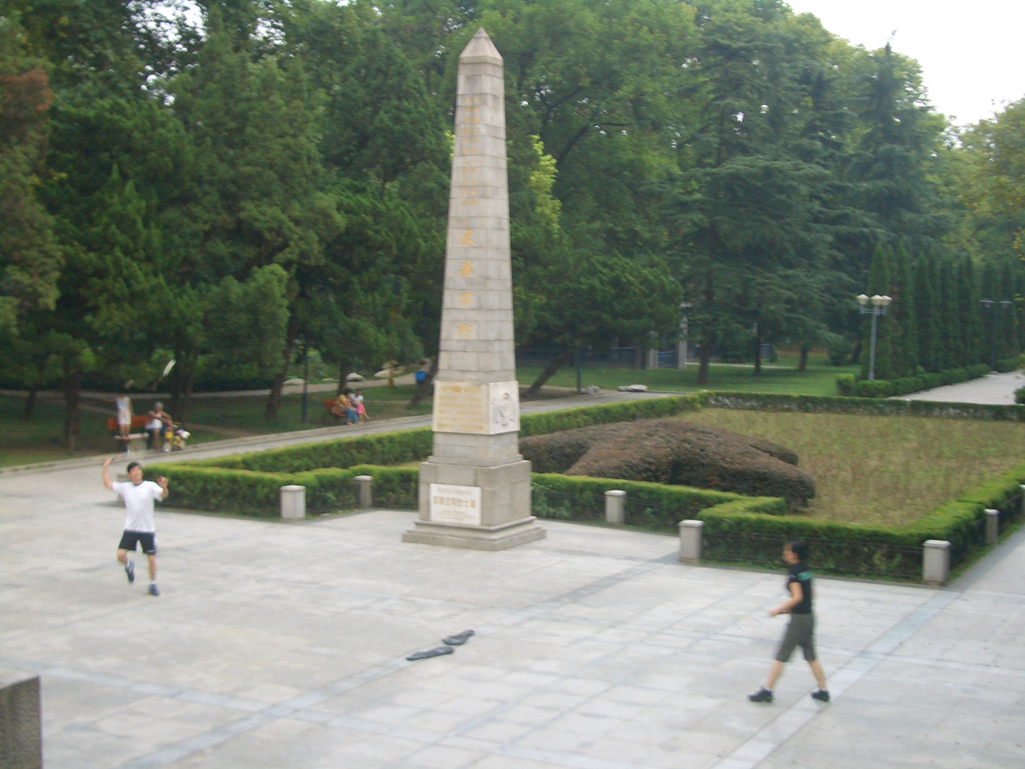 Monument at the graves of the Soviet aviators who died while fighting the Japanese invaders in 1938. (Jiefang Park, Hankou, Wuhan)